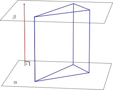 Right triangular prism.